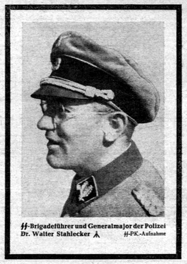 Walter Stahlecker (1900—1942) — SS-Brigadeführer and Generalmajor der Polizei,Commander of Einsatzgruppe A.